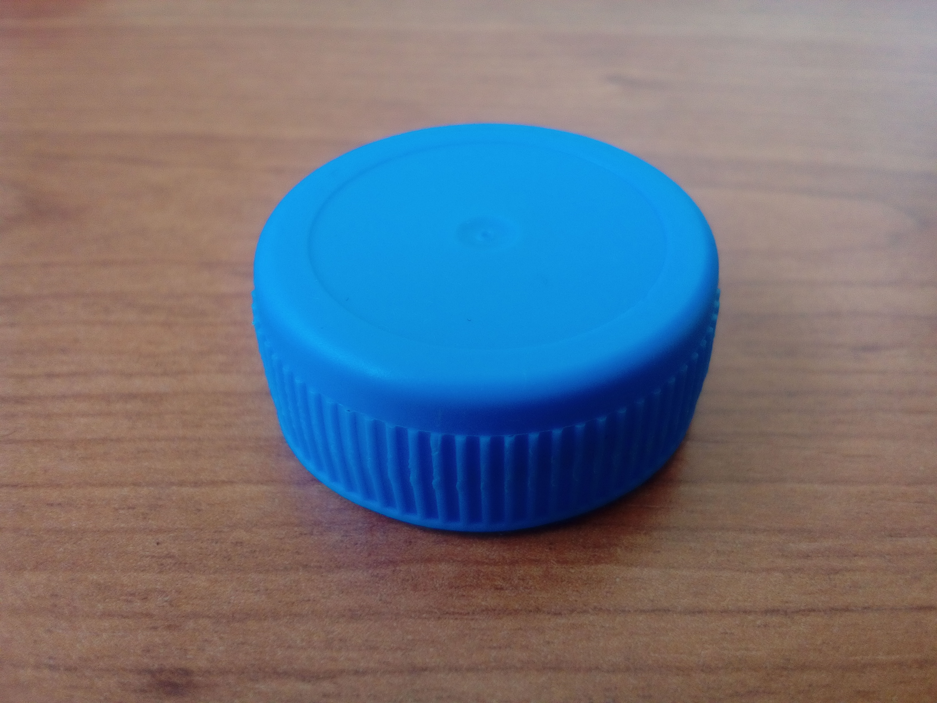 Plastic lid